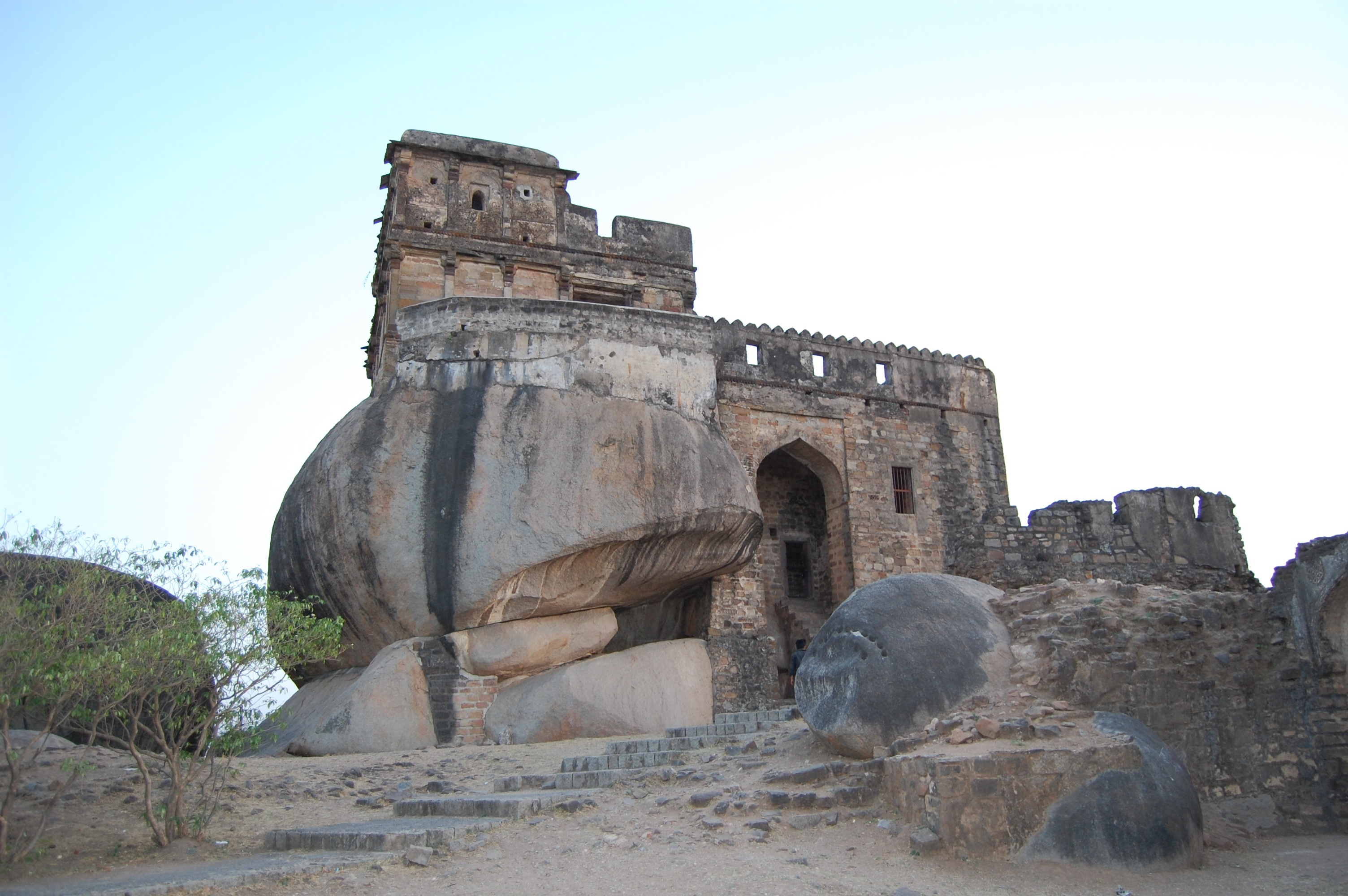 दृश्य